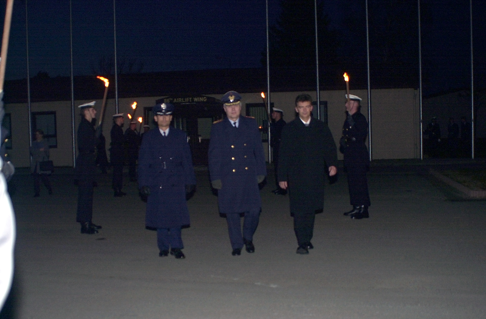 Brigadier General (BGEN) Mark A. Volcheff (left), USAF, Commander, 86th Airlift Wing (AW), Lieutenant General (LGEN) Gerhard Back, CHIEF of STAFF of the German Air Force, and Herr Klaus Layes (right), Mayor of Ramstein-Misenbach walk toward the Grosser Zapfenstreich (Grand Tattoo) Ceremony. The ceremony, a gift to the base in recognition of its 50th Anniversary, began at sunset with 360 torch-bearing members parading onto the grounds. Ramstein military community and guests from the local community attended the ceremony. (Substandard image).